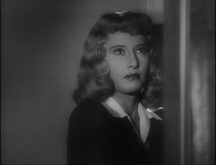 Cropped screenshot of Barbara Stanwyck from the trailer for the film Double Indemnity